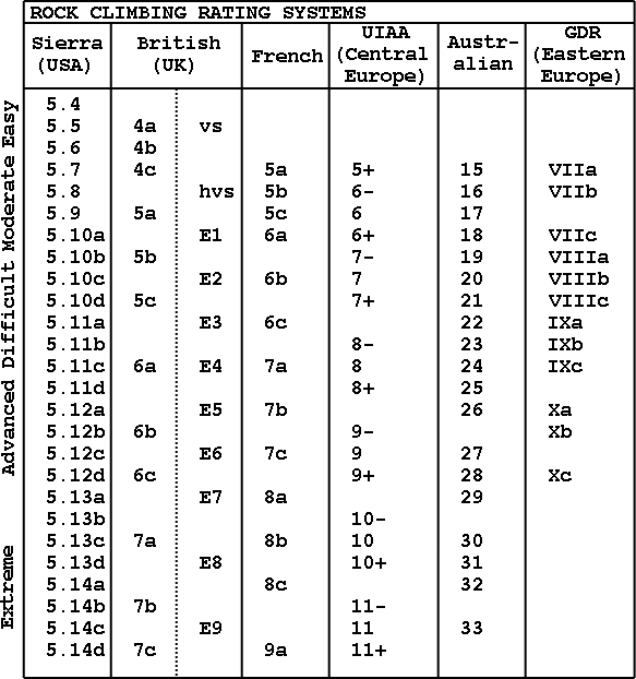 Climbing grade comparison chart.